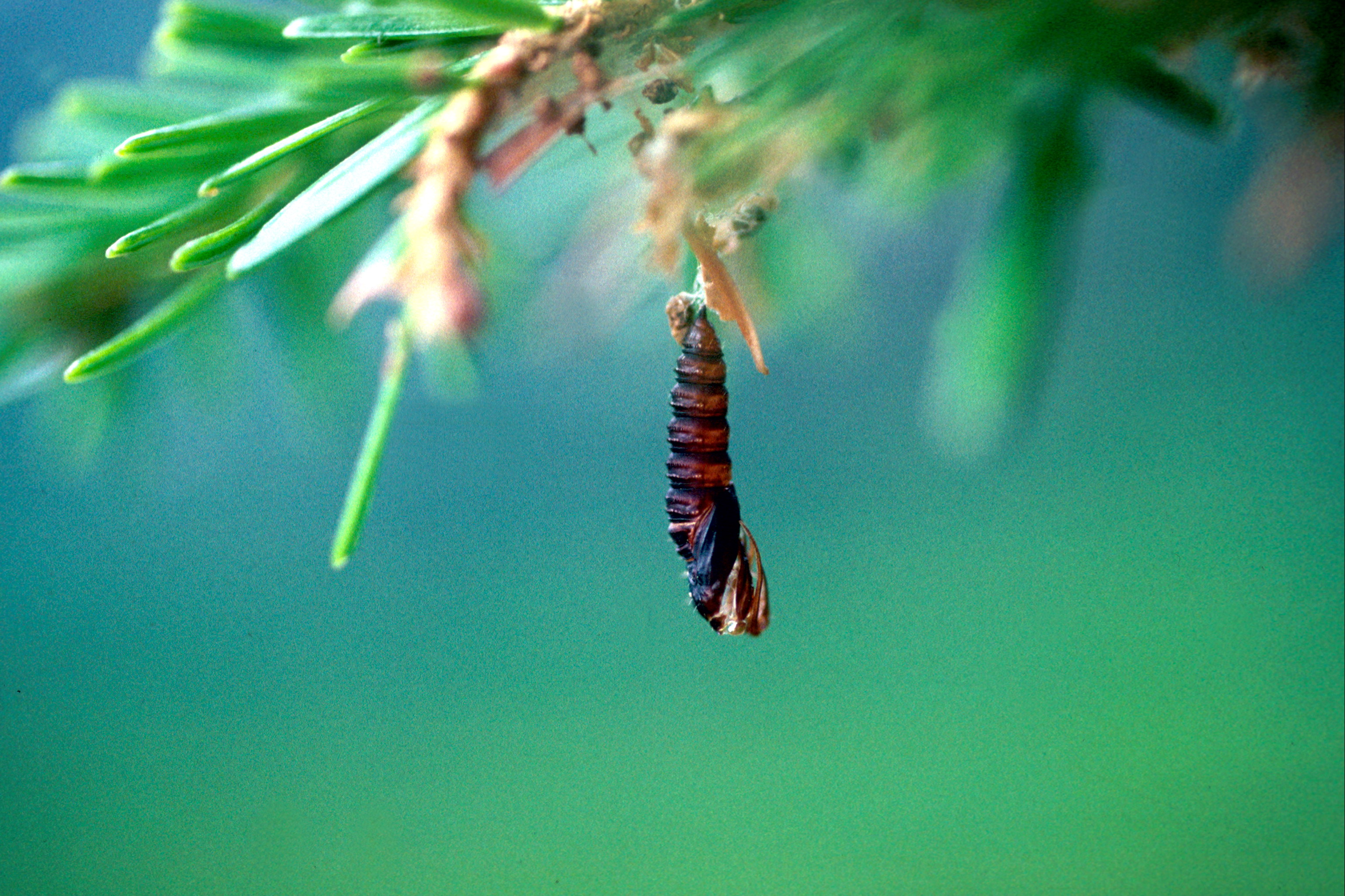 Choristoneura murinana puppa